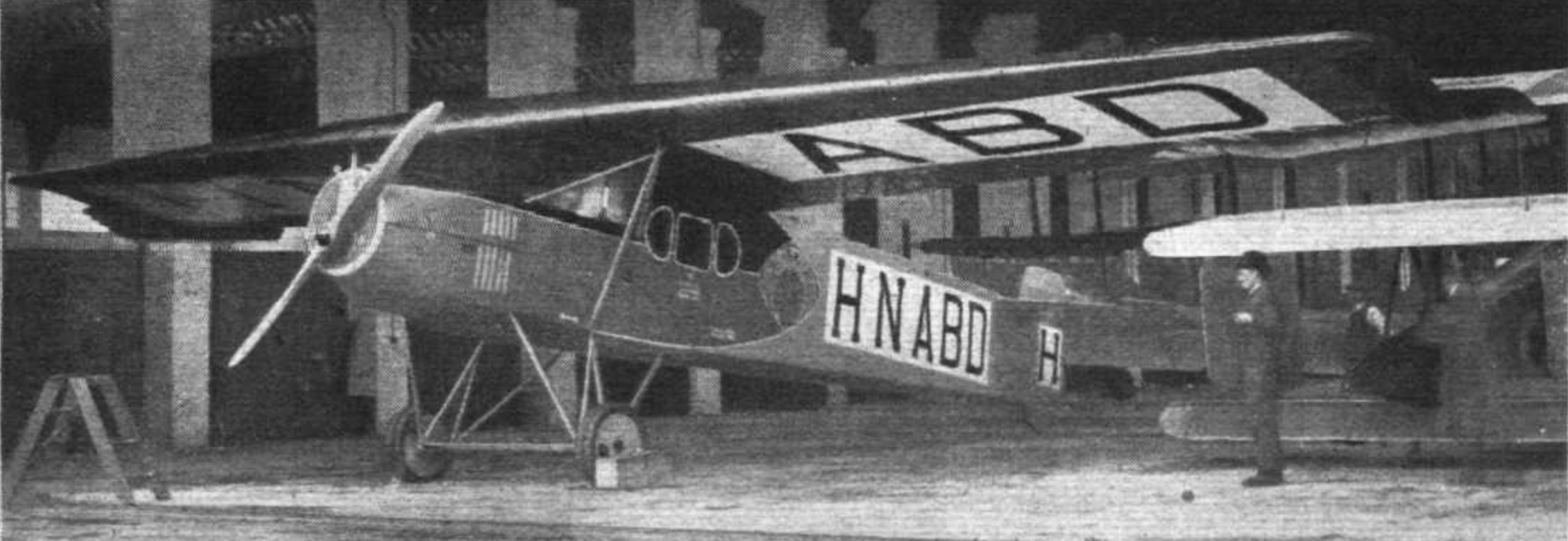 Fokker F.II airliner of KLM, with Dutch registration H-NABD, visiting Waddon Aerodrome in London. This was one of two F.IIs bought by KLM; they were the first aircraft it owned. This aircraft has the F.II's original round radiator and probably also its original 185 hp (138 kW) BMW IIIa engine.